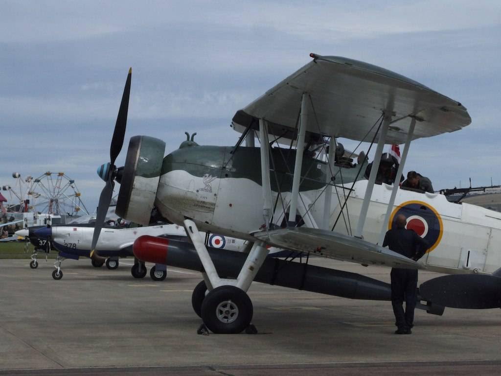 Shoreham airshow Fleet air arm Fairey Swordfish at Shoreham airshow